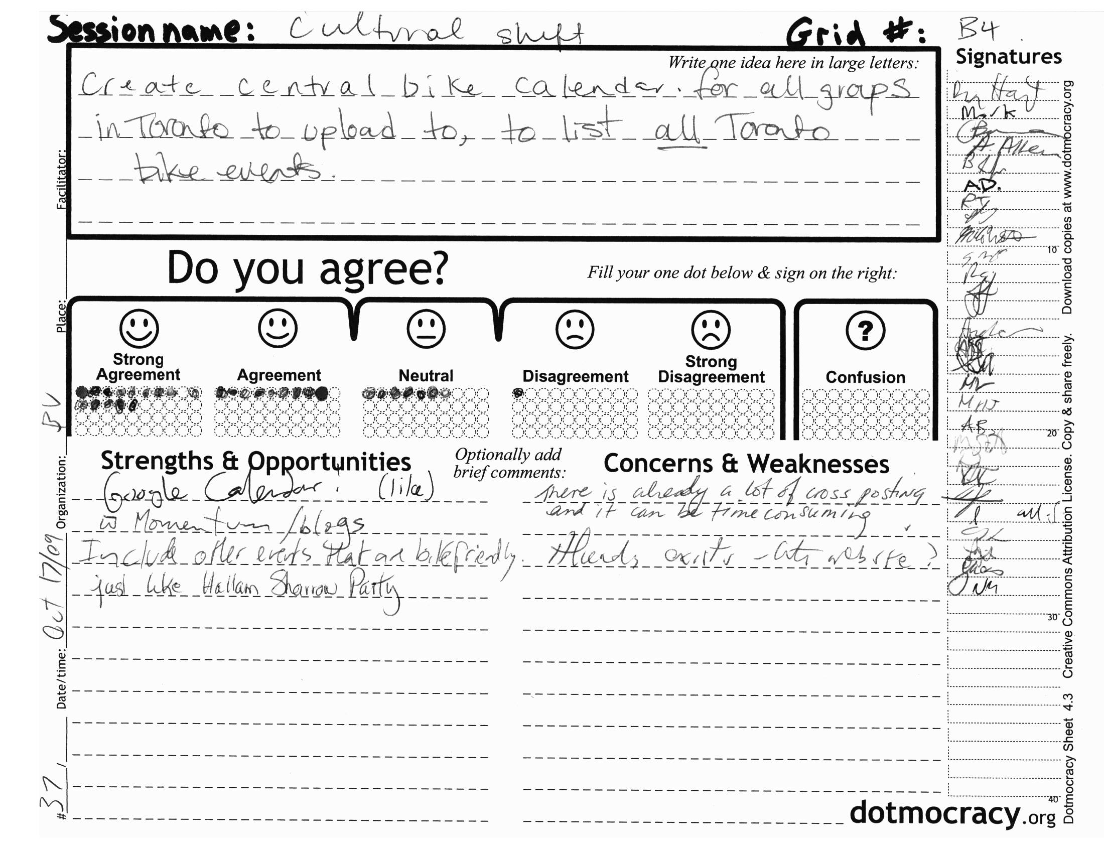 One of 64 completed Dotmocracy sheets from BikeCamp TO event.